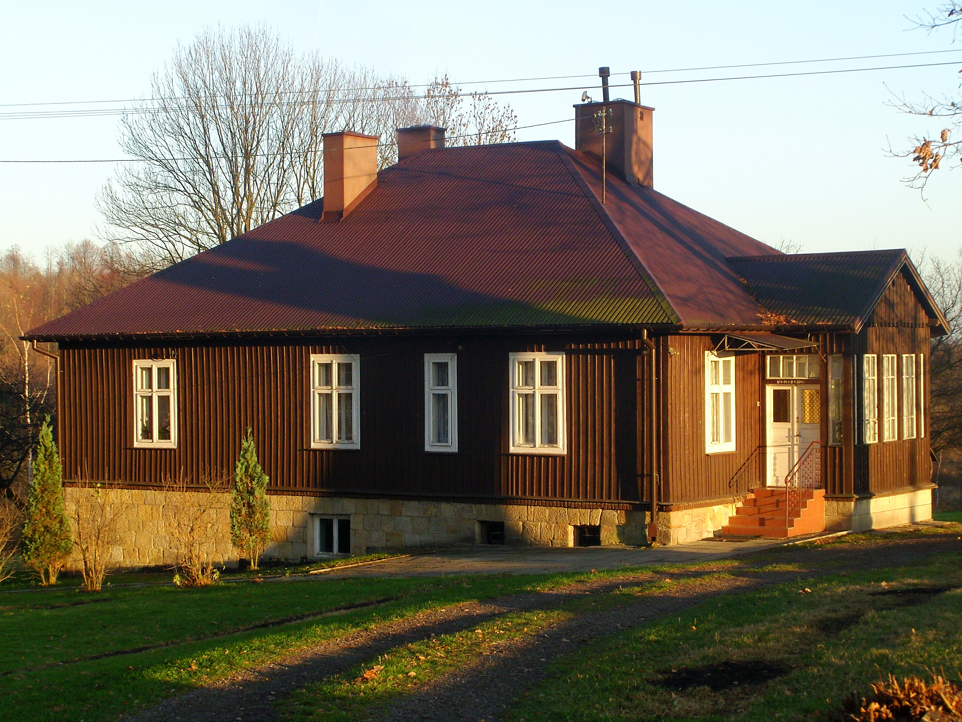 Wooden clergy house in Baczal Dolny (Poland), built in 1923 year